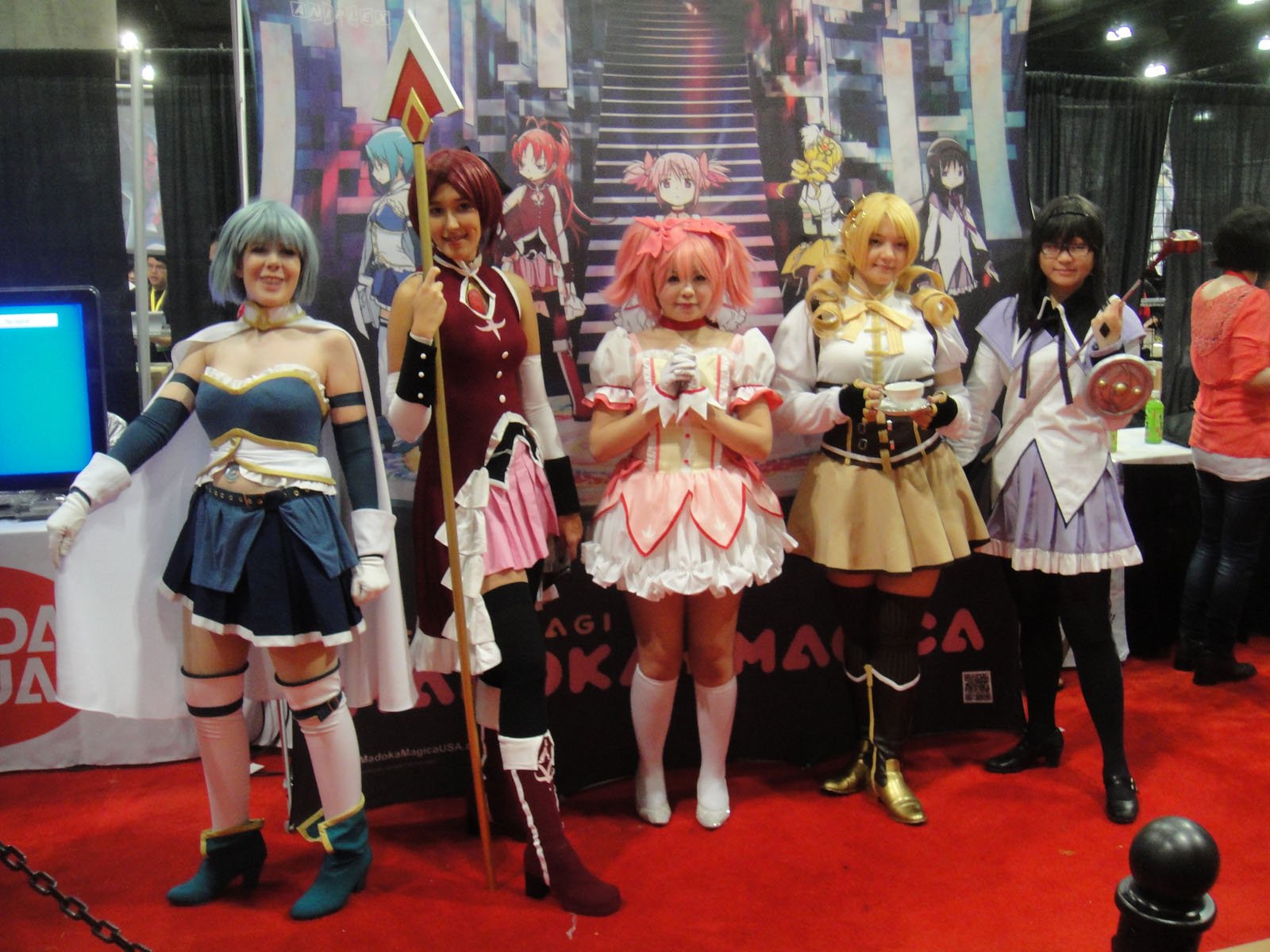 Anime Expo 2012